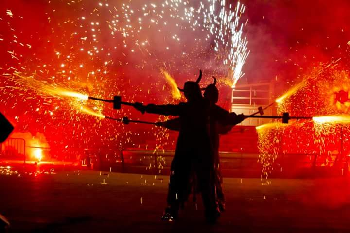 The Dragons of fire of Alcanar with fire